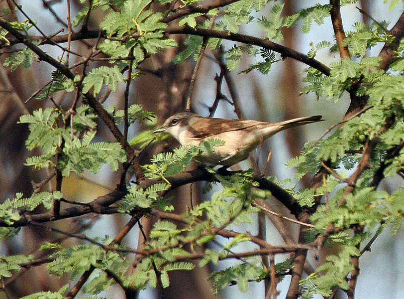 Lesser Whitethroat (Sylvia curruca) at Keoladeo National Park, Rajasthan, India.